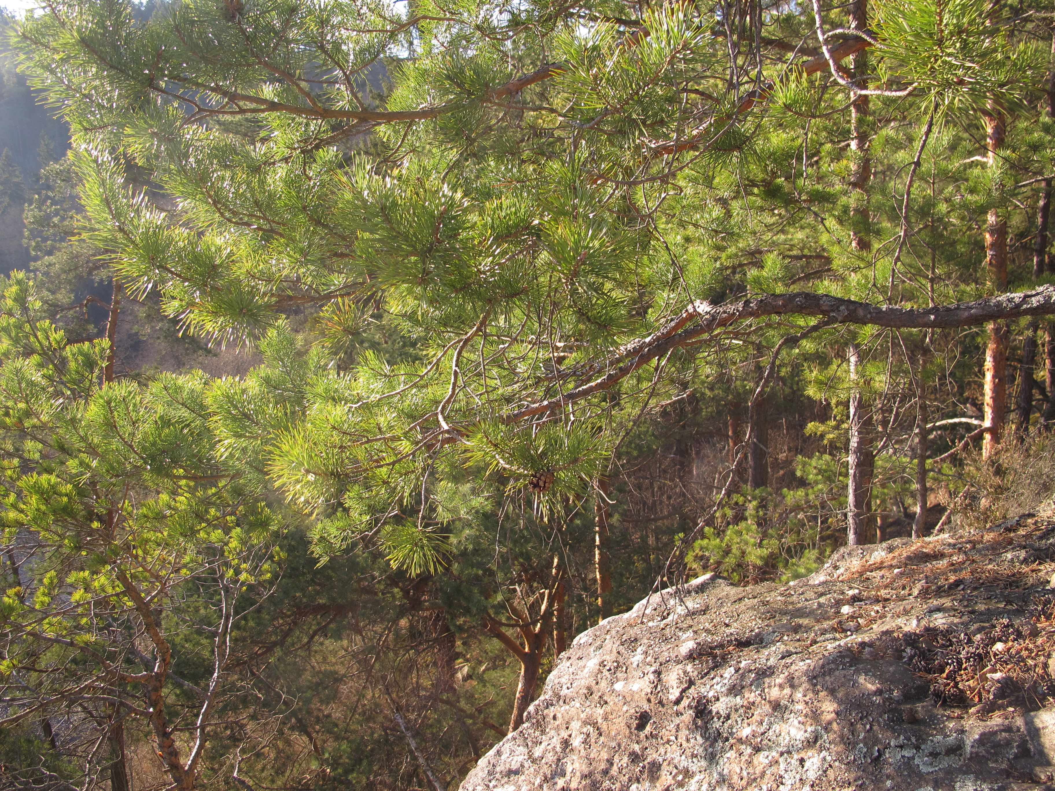 Pinus sylvestris on gneiss rocks near Vltava river, Southern Bohemia